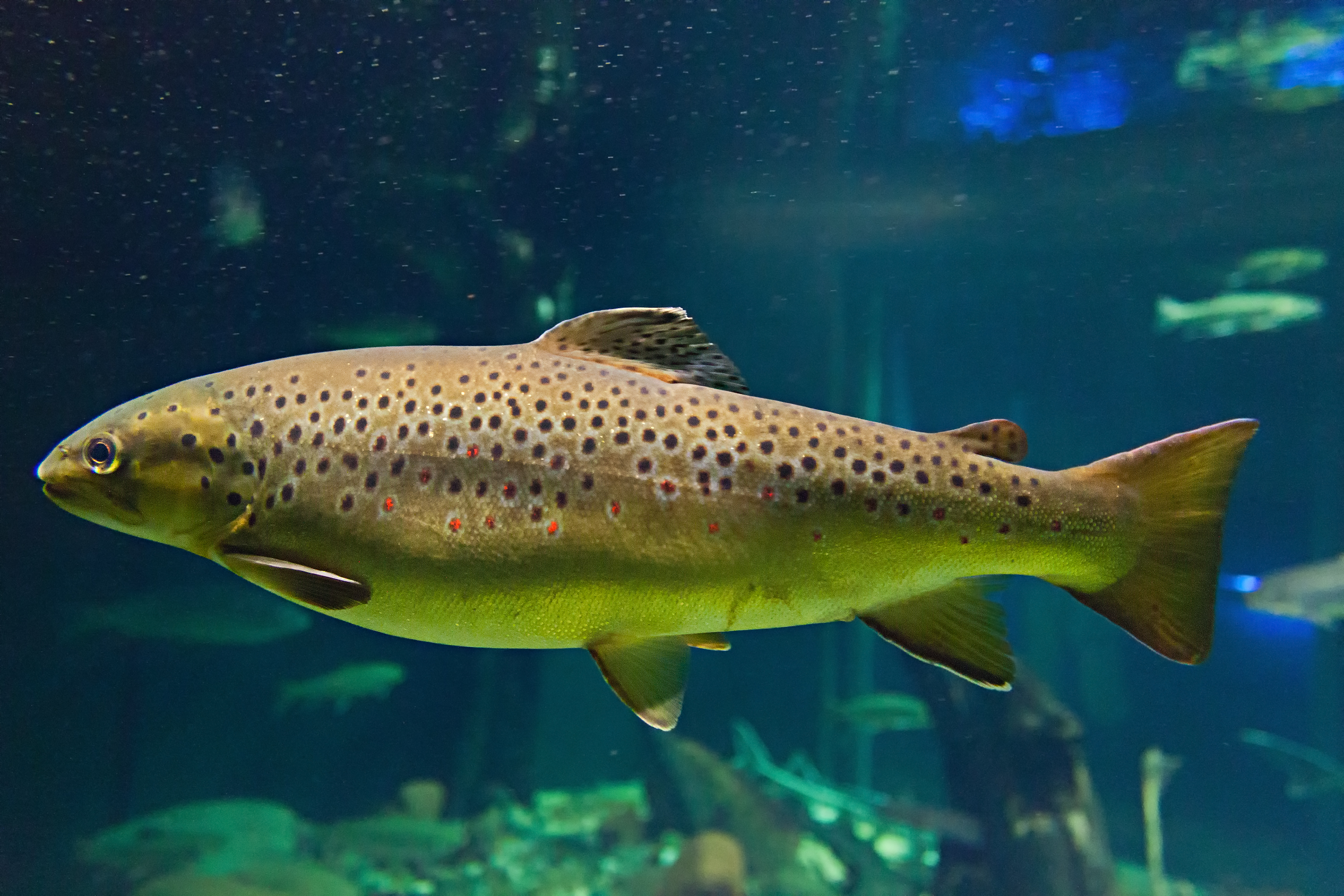 A brown trout (Salmo trutta) swimming by in an aquarium basin of the Ozeaneum Stralsund.